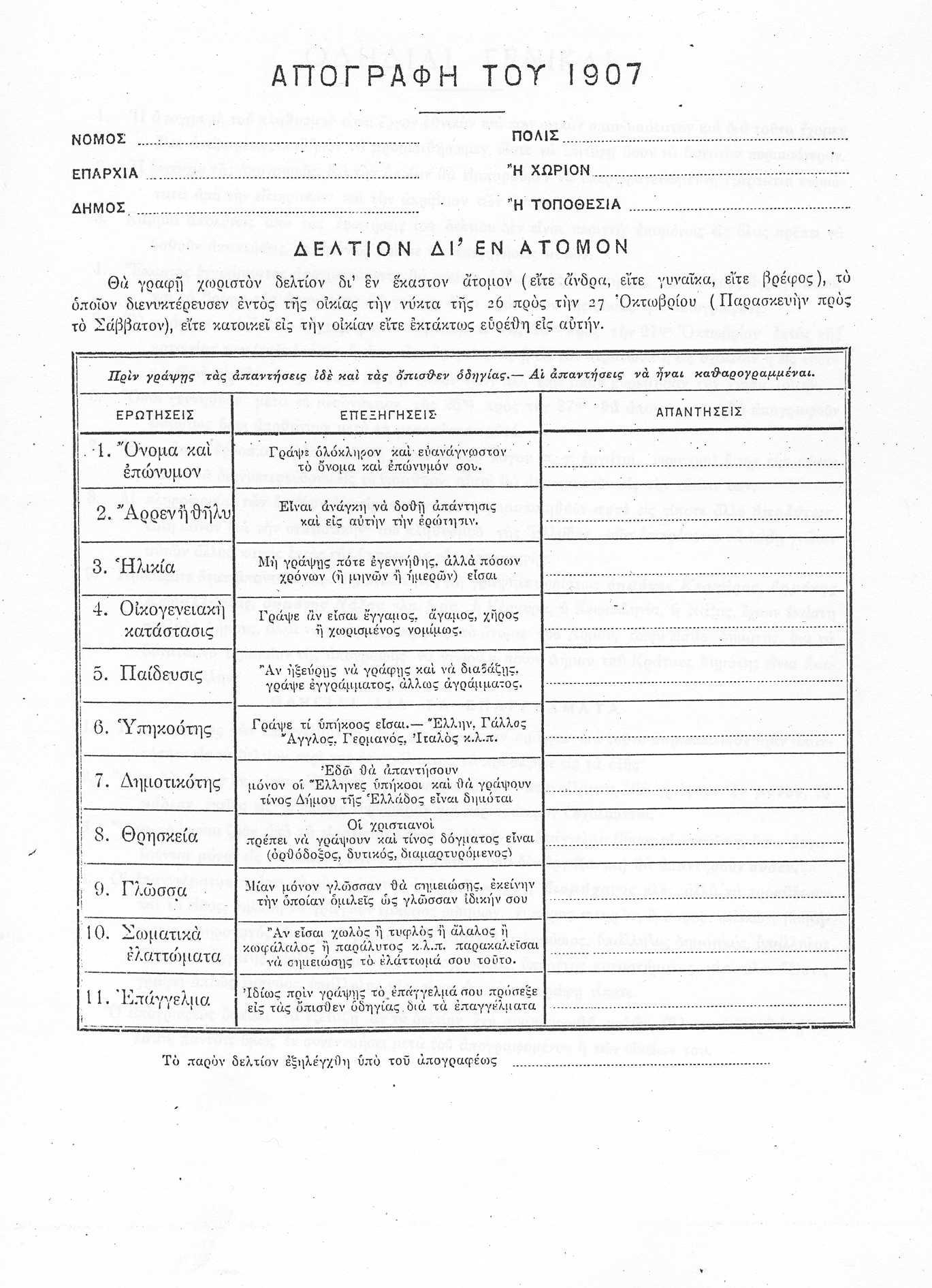 The document used for the Greek Census of 1907